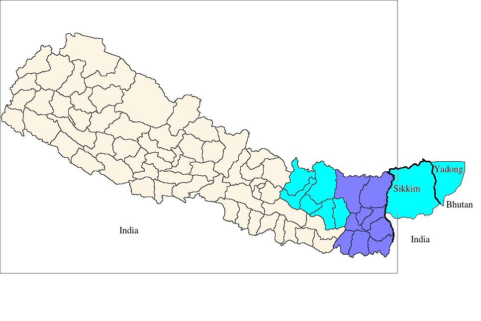 9 Districts advocated by Federal Limbuwan State Council in dark blue, historic Limbuwan maximum extent light blue, thick lines represent current international boundaries.